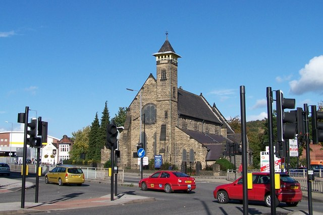 Parish church of St John the Baptist, Penistone Road, Owlerton, Sheffield, West Yorkshire, seen from the southwest from the junction with Owlerton Green